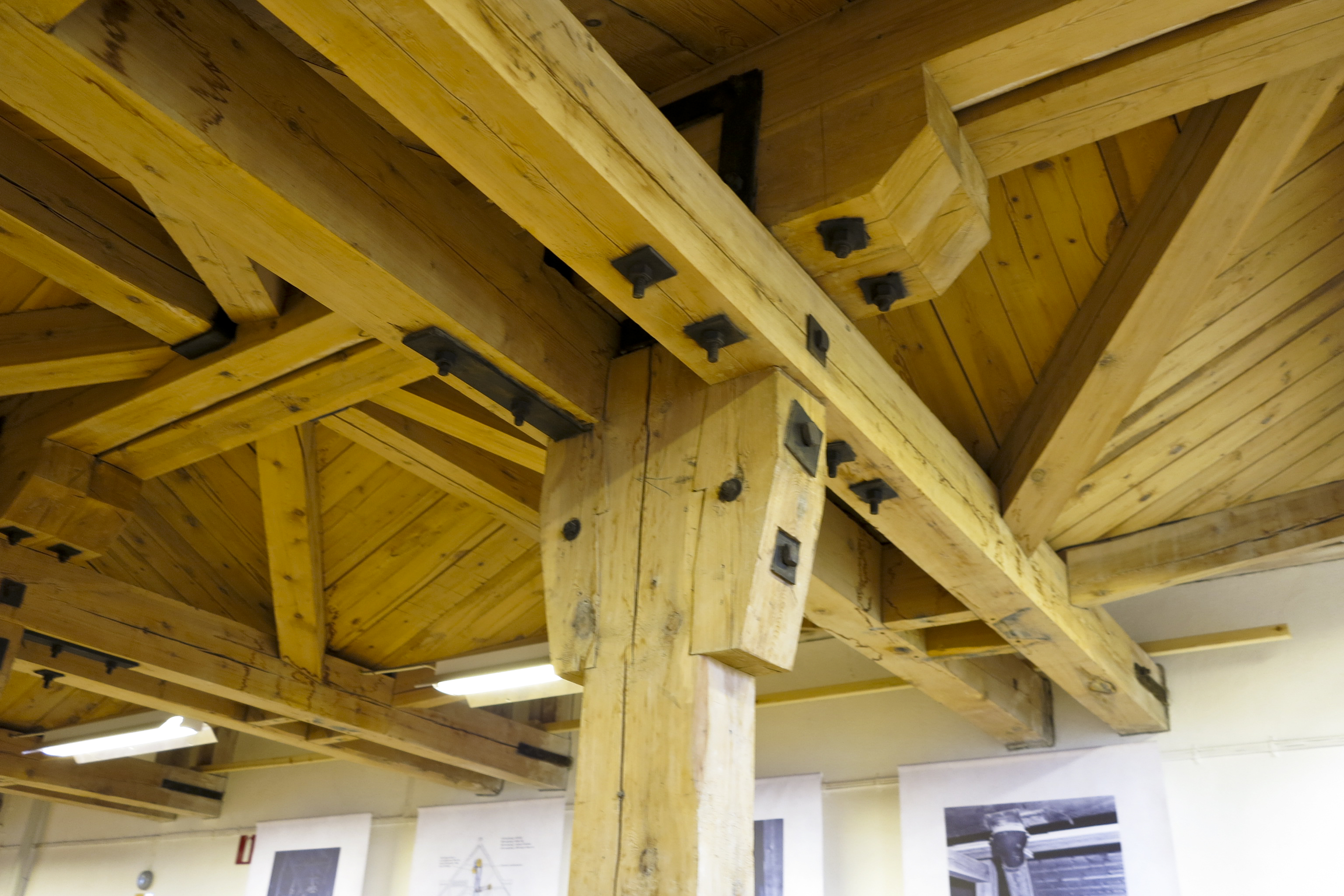 "Havremagasinet". Store-house for oats, to store food for horses and men, built 1911. Boden, Sweden. Roof construktion with store-pockets and transport system to keep the oat fresh and without self-heating.